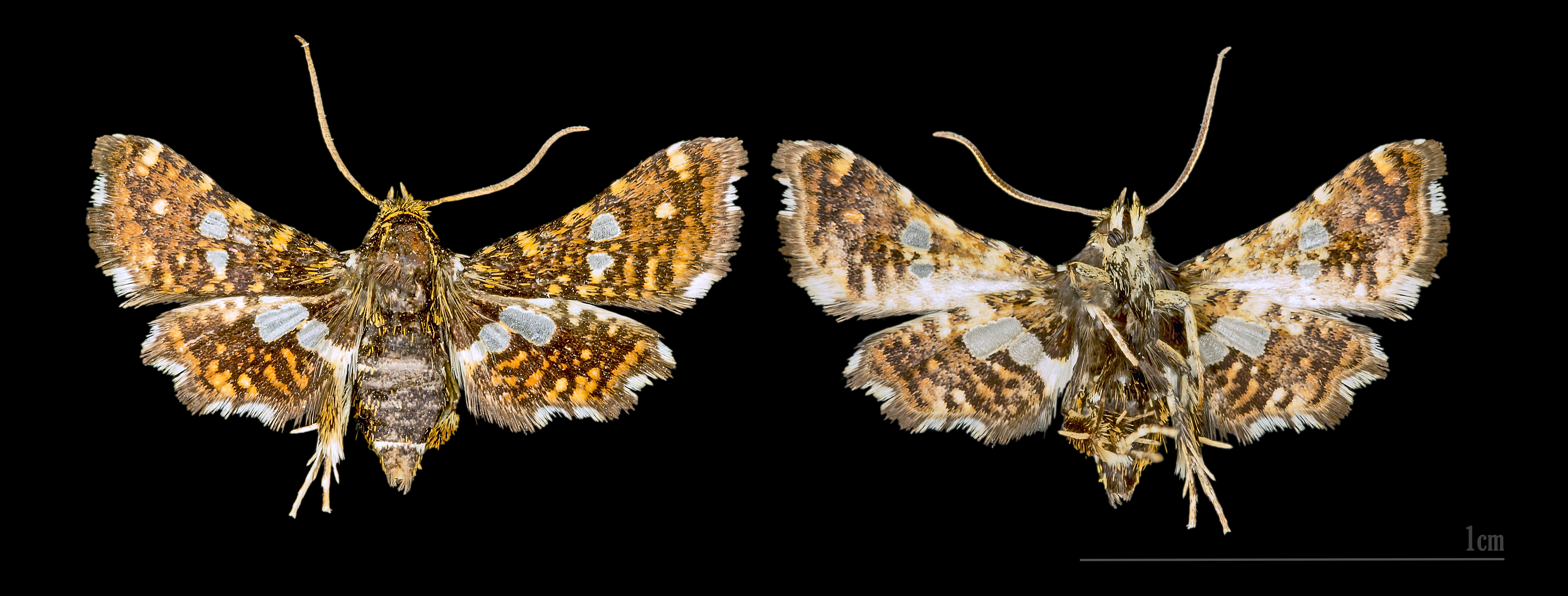 Pygmy (Moth). Two views of same specimen